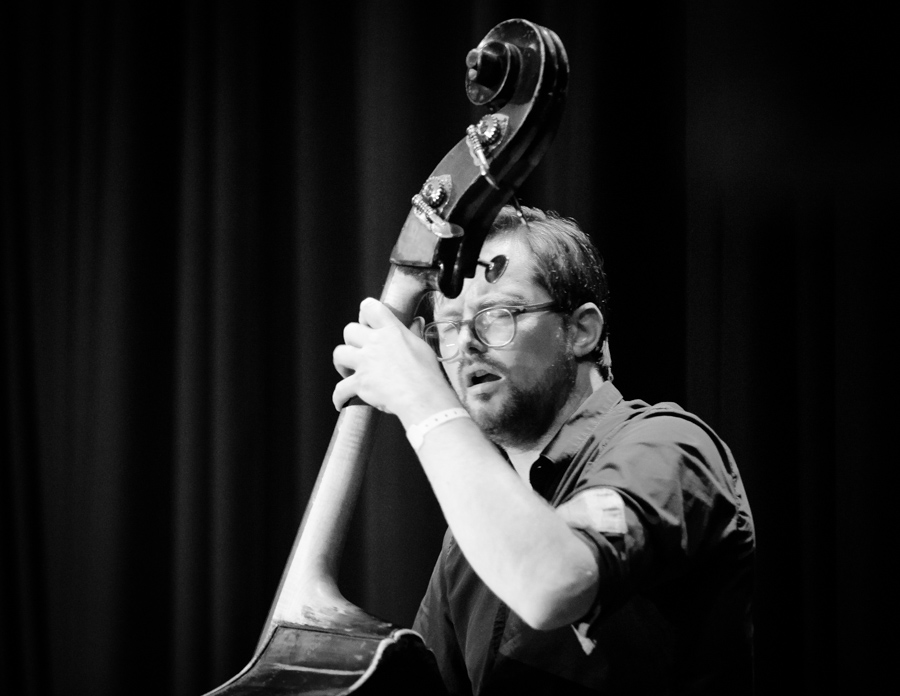 Ole Morten Vågan with Erlend Skomsvoll in Forstanderskapssalen in Sentralen. The concert was part of Oslo Jazzfestival and took place on 18. August 2018 in Oslo. Lineup: Erlend Skomsvoll (piano) Ole Morten Vågan (double bass) Siril Malmedal Hauge (vocal)